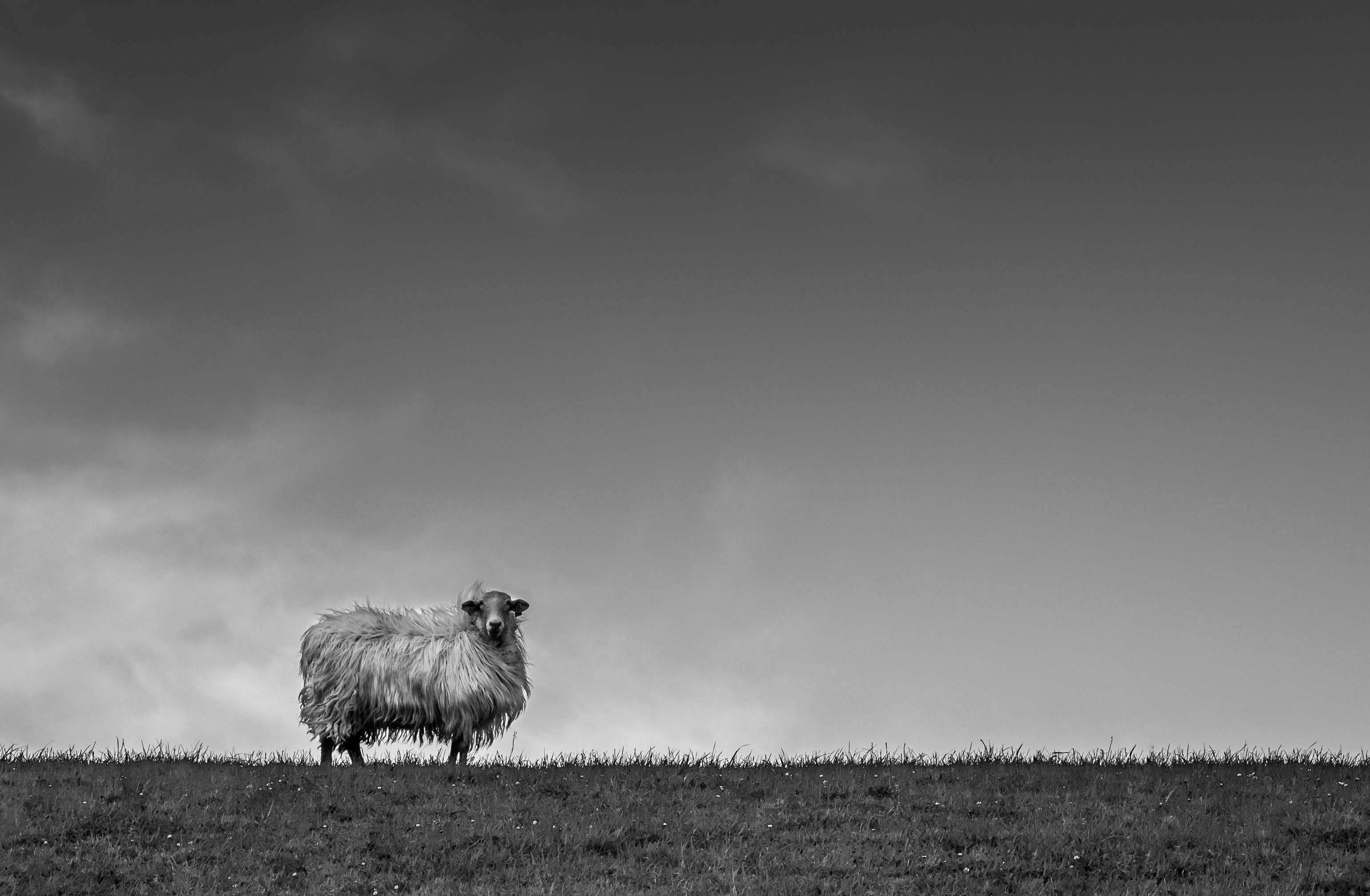 Sheep (race Red Head Manech) at Zuhalmendi. Ascain, Basque Country, France